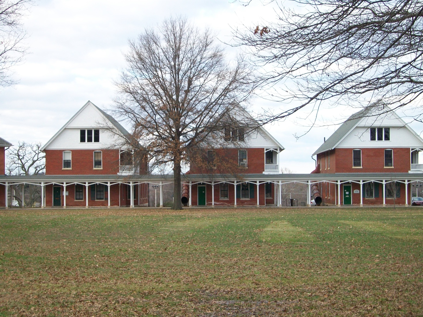 The "cottages" at the Iowa Soldiers' Orphans' Home